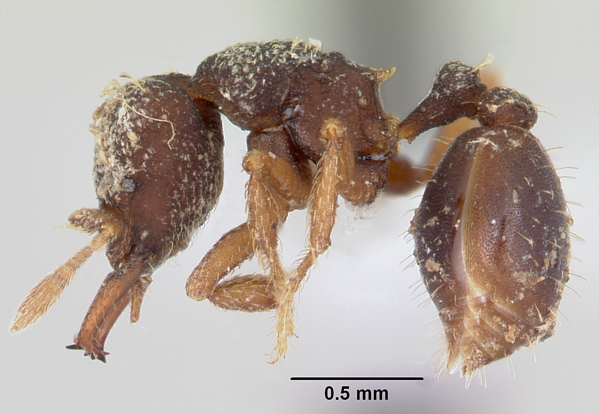 Profile view of ant Rhopalothrix ciliata specimen casent0423544.